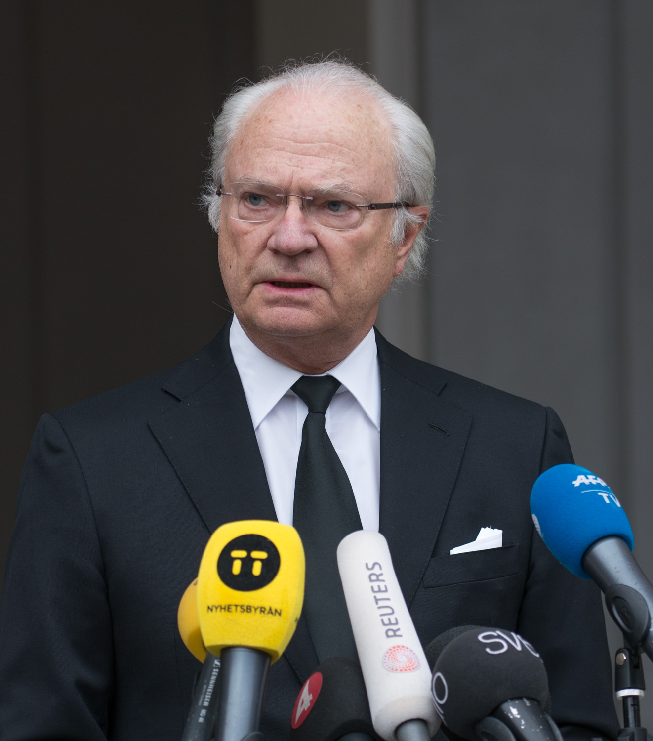 The day after the terrorist attack in Stockholm in april 2017.